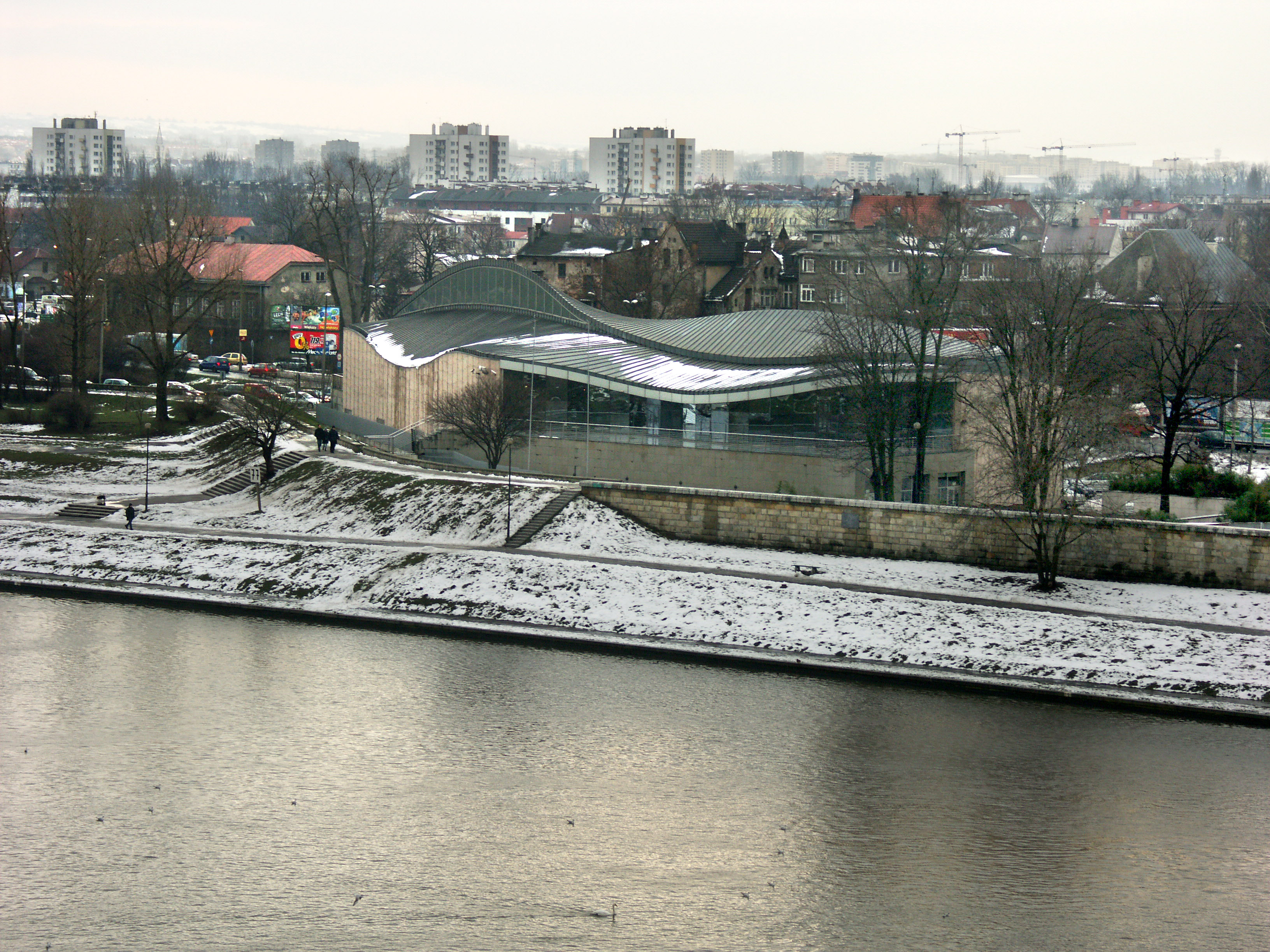 Manggha from Wawel